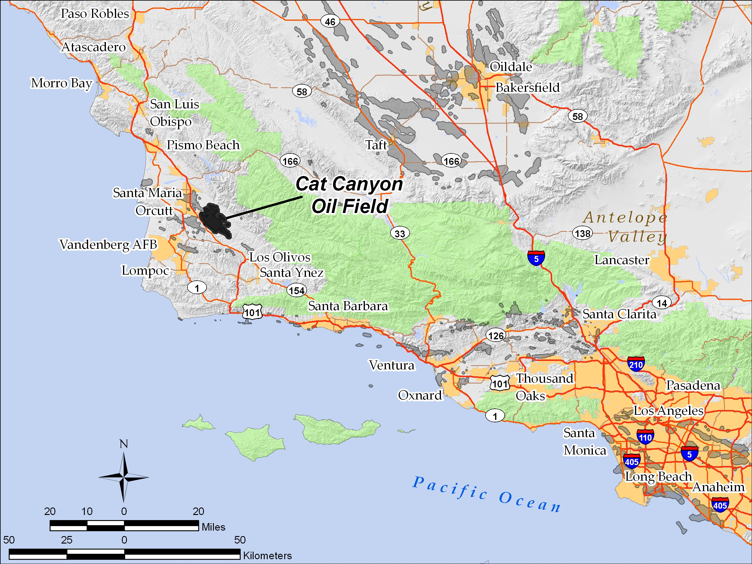 Location of Cat Canyon field. All data shown is in the public domain (USGS, US Census TIGER line files, USDA/USFS). By self in ArcGIS 10.1. Summary Location of Cat Canyon field. All data shown is in the public domain (USGS, US Census TIGER line files, USDA/USFS). By self in ArcGIS 10.1.